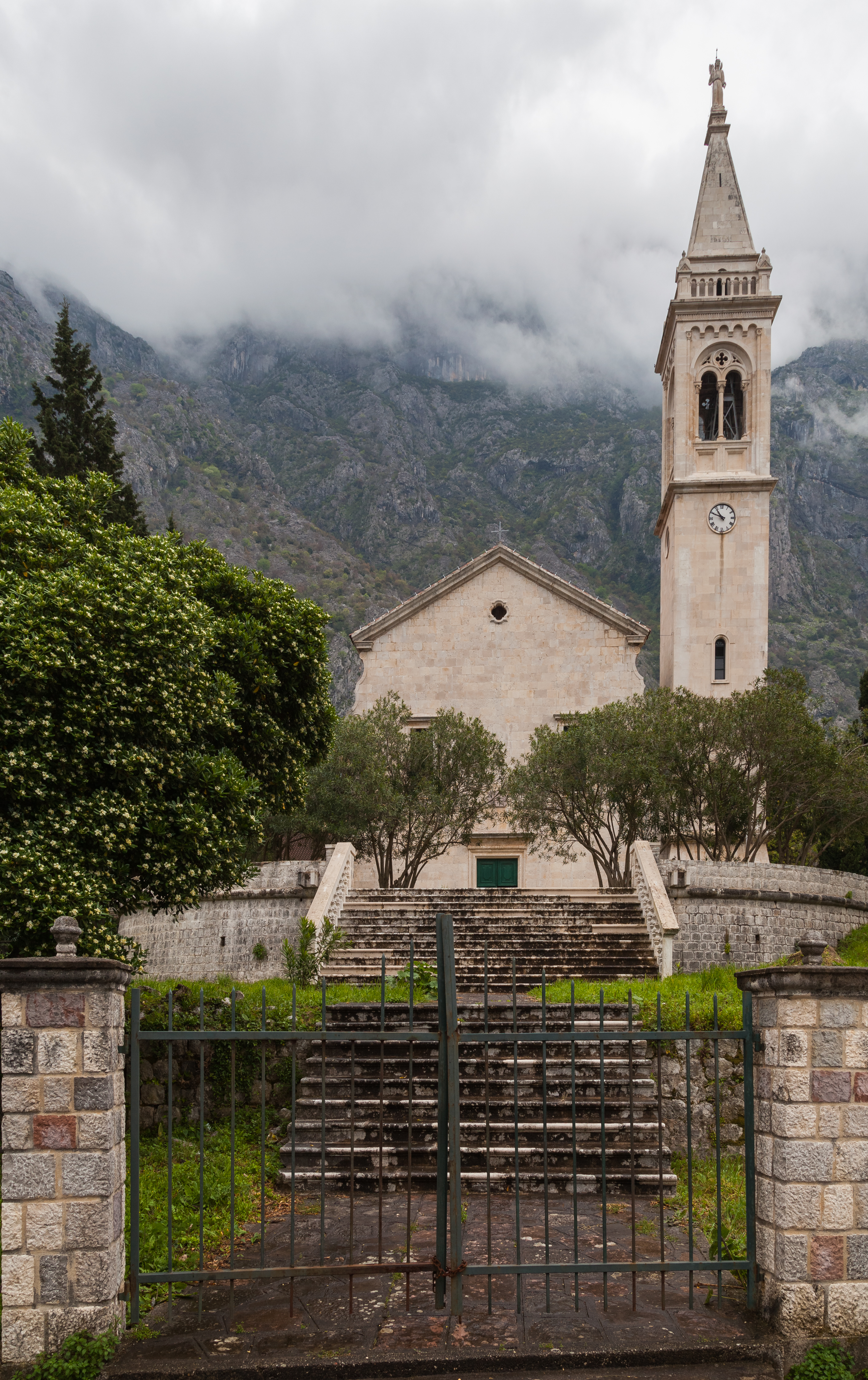 St Matthews church, Dobrota, Bay of Kotor, Montenegro